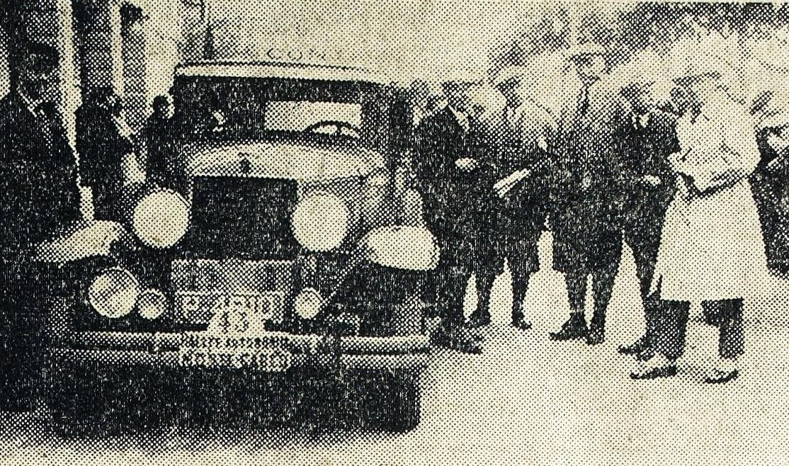 Entry #43 and overall winner in the 1929 Rallye Monte Carlo is dr. Sprenger van Eijk in a Graham-Paige 27HP with 4,718 ccm engine. He entered in 1930 as well with the very same Graham-Paige (dutch license "P-4910").